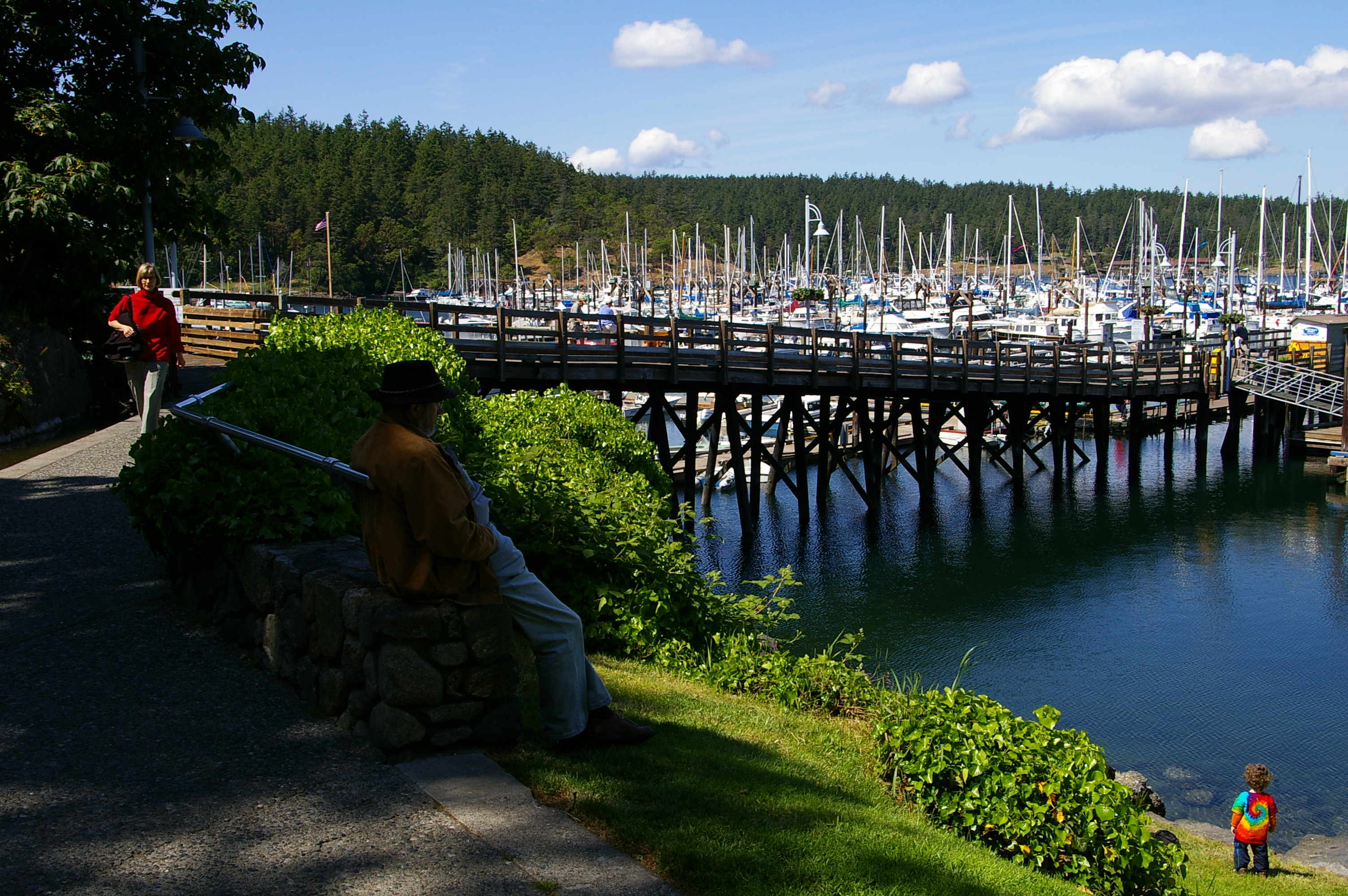 Friday Harbor, looking northwest from park towards marina